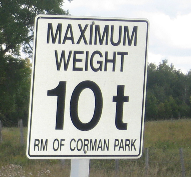 Weight limit sign on Township Road 352 outside Saskatoon, Saskatchewan. Shot September 2008